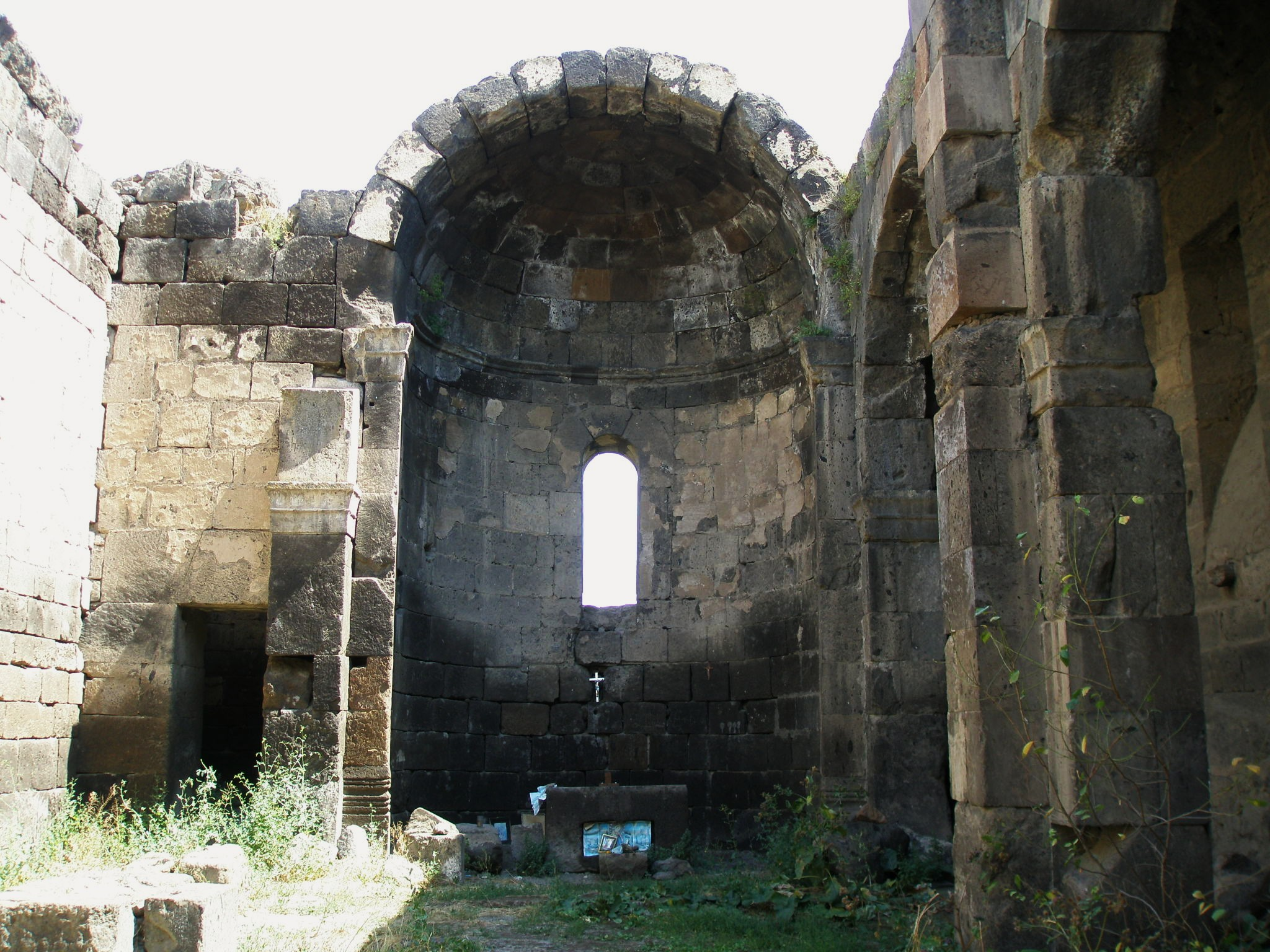 Spitakavor Church of Ashtarak apse